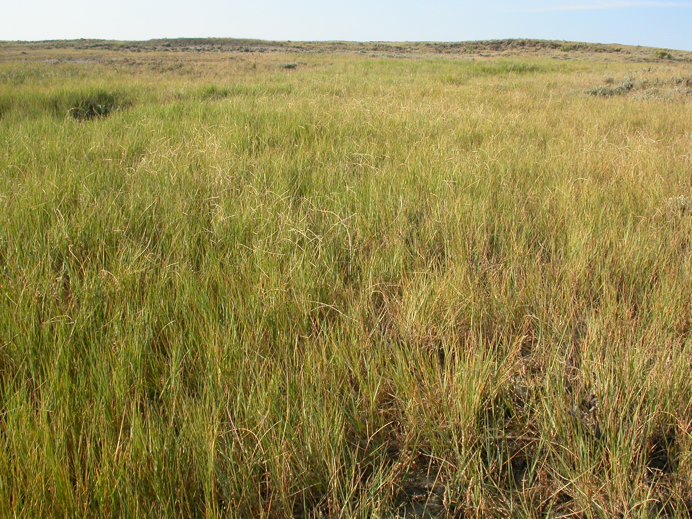 This scene is at the edge of a prairie dog town and is part of the former dog town but now colonized by extensive stands of Schedonnardus. The inflorescences, which serve as the seed dispersal unit, are conspicuous with this angle of sunlight.